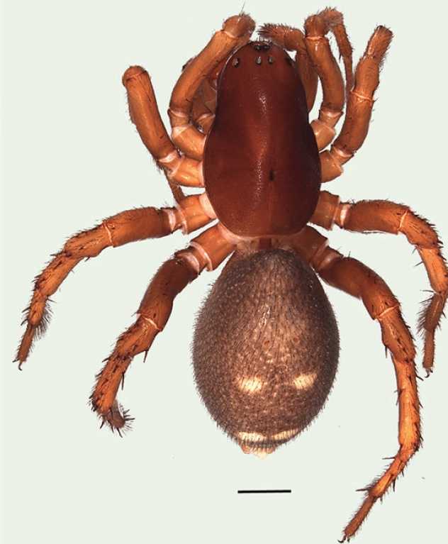 Palindroma morogorom, female, dorsal view. Scale bar = 1 mm